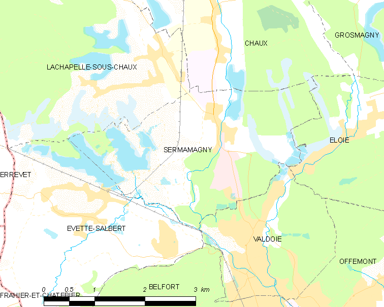 Map of French municipality Sermamagny